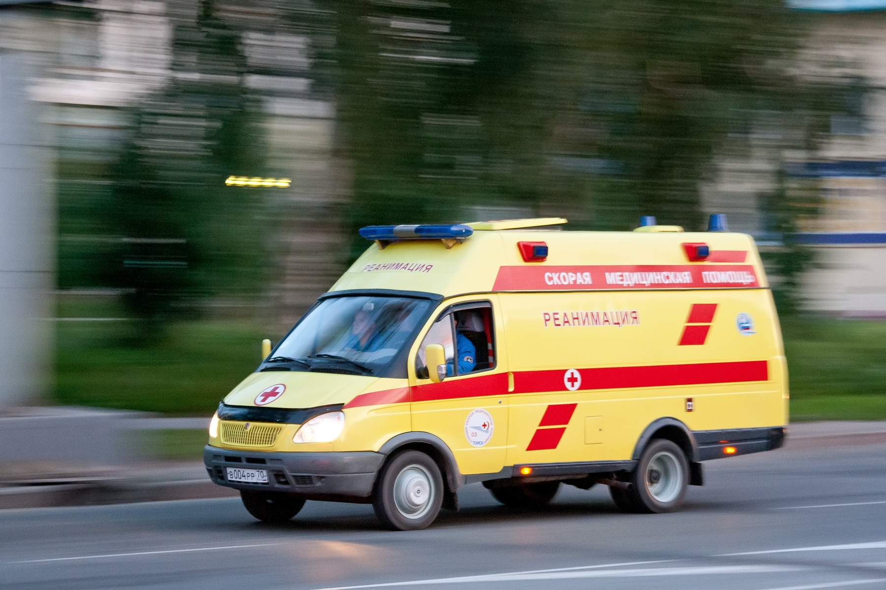 Ambulance in Tomsk, Russia